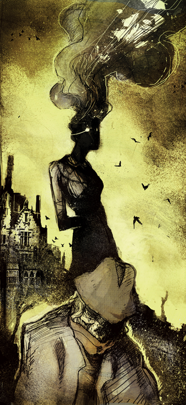 Alex Eckman-Lawn's artwork based on H. P. Lovecraft's story The Thing on the Doorstep.